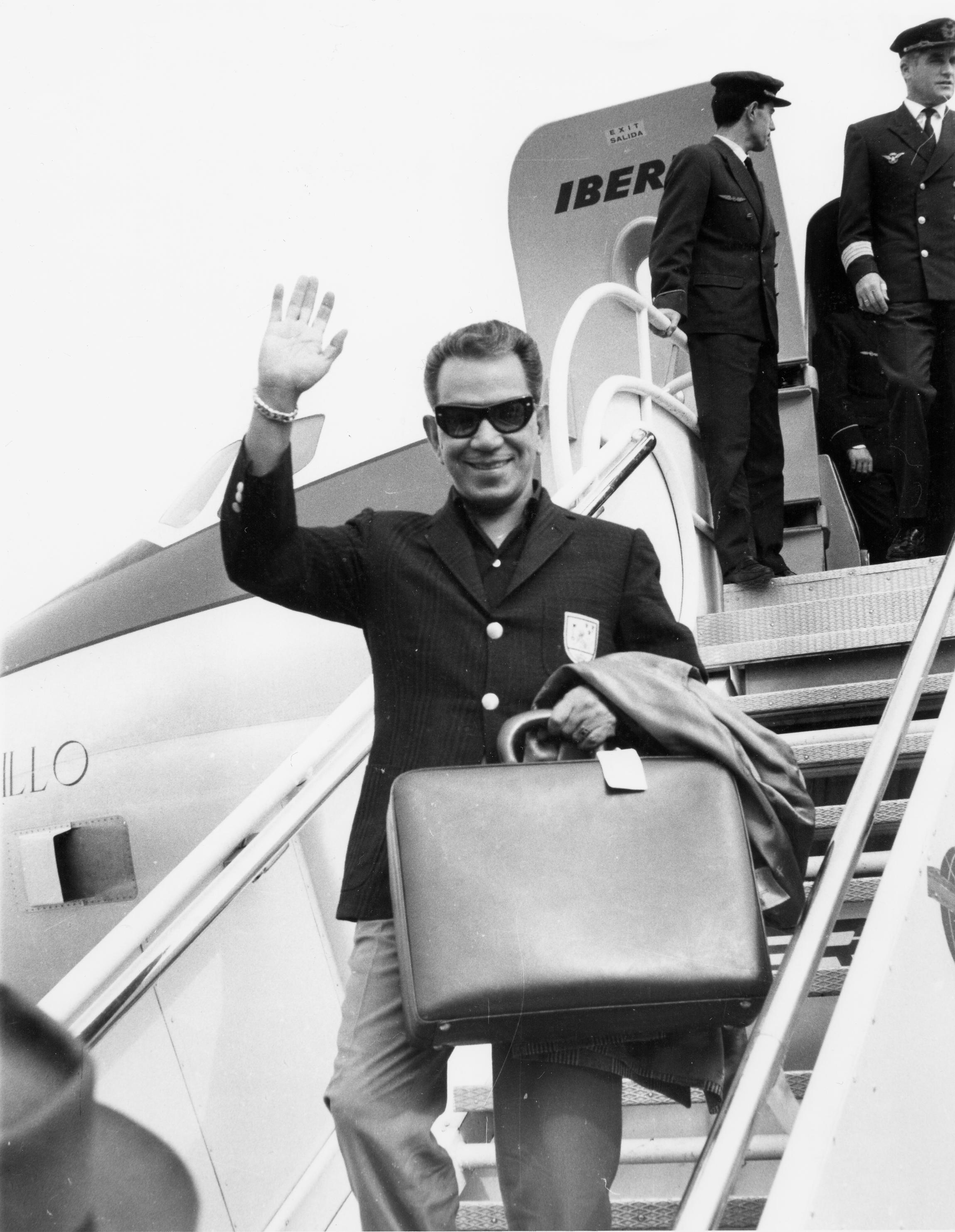 The Mexican comedy star Mario Moreno (better known as Cantinflas) arriving November 3, 1964 at Madrid's Barajas aiport to act as godfather at the baptism of the daughter of Alonso Camorra.